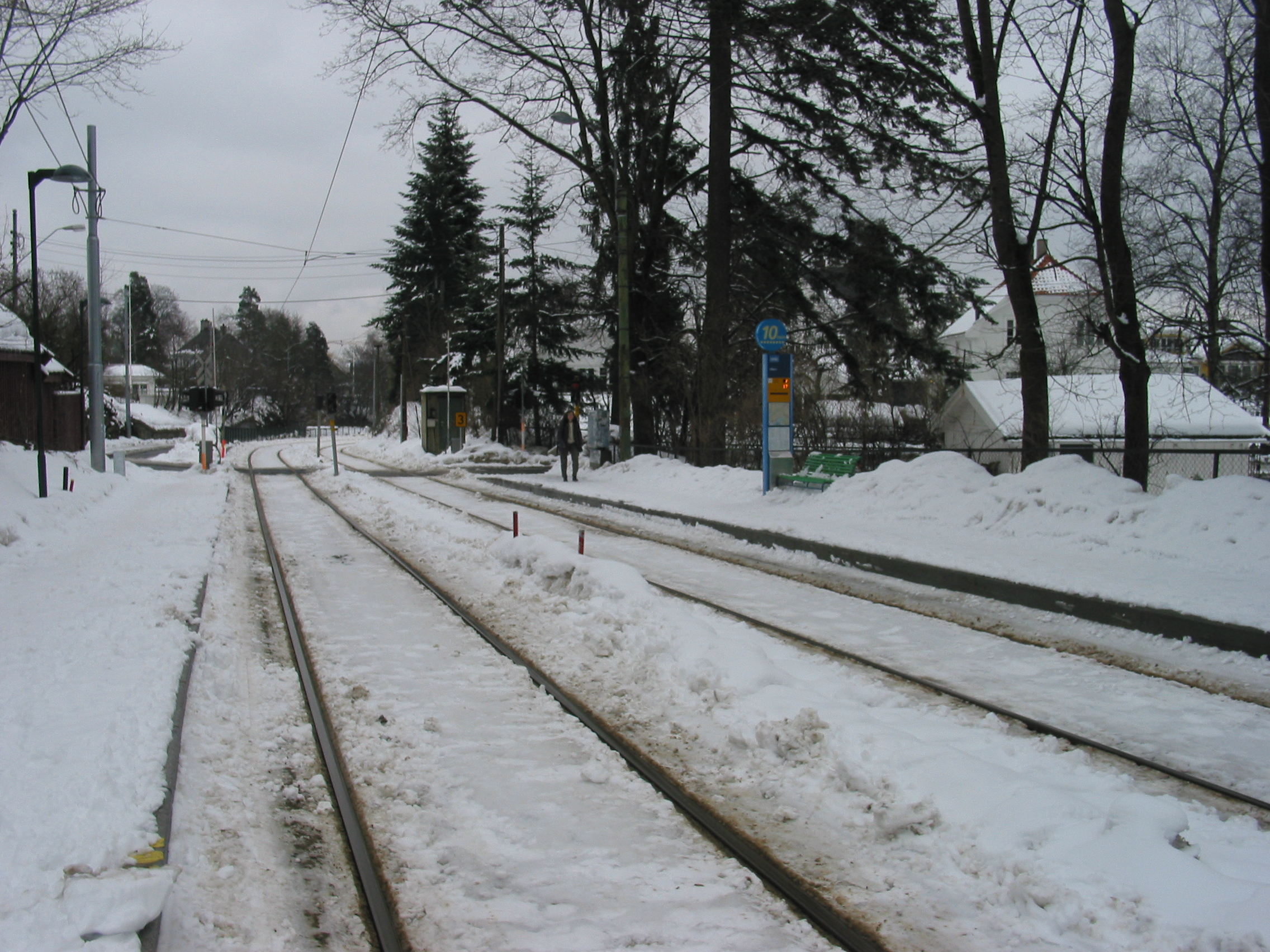 Ullern tramway station, seen from the west, on a grey March 2009 day.